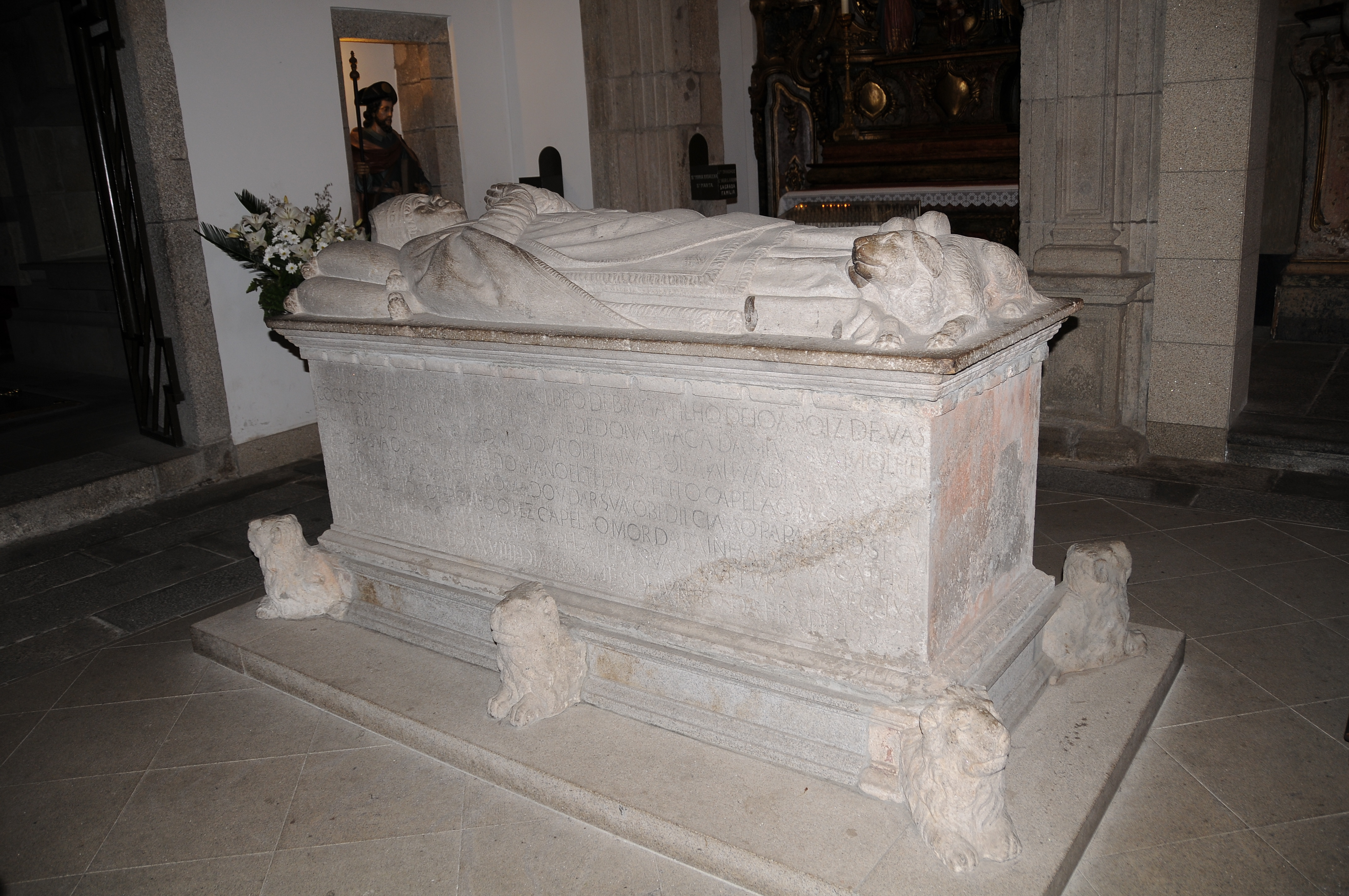 Tomb of D. Diogo de Sousa in Capela de Nossa Senhora da Piedade, Braga Cathedral, Portugal